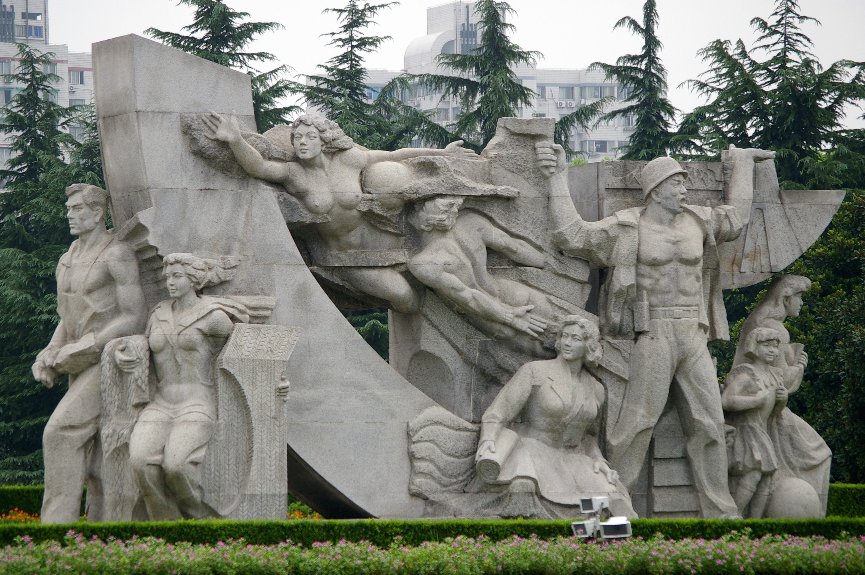 Socialist realism sculpture in Longhua Park in Shanghai